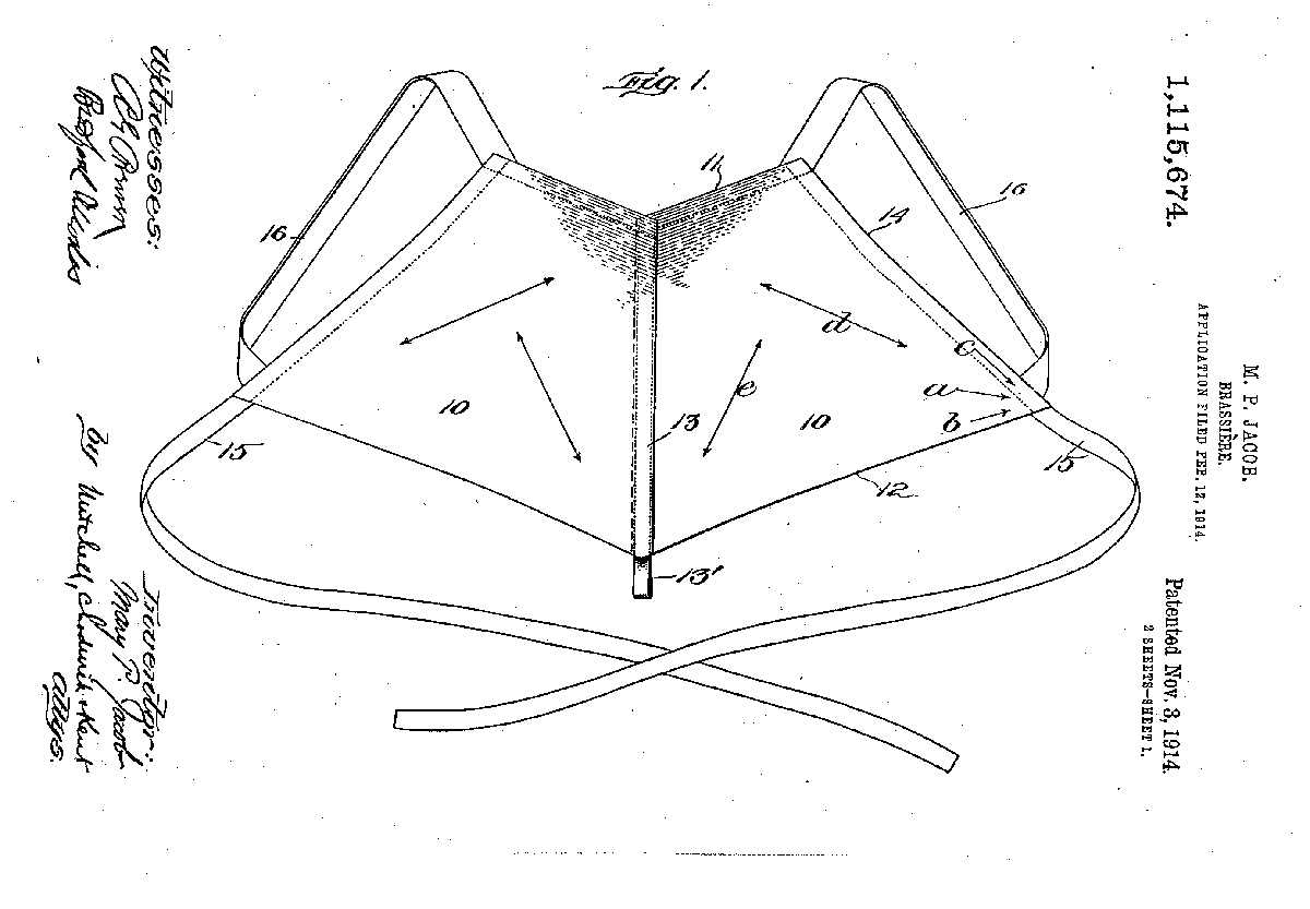 Patent design for a "backless brassiere" by Mary Phelps Jacob. File:Jacob-brassiere-patent-1914.png rotated to illustrate usage.